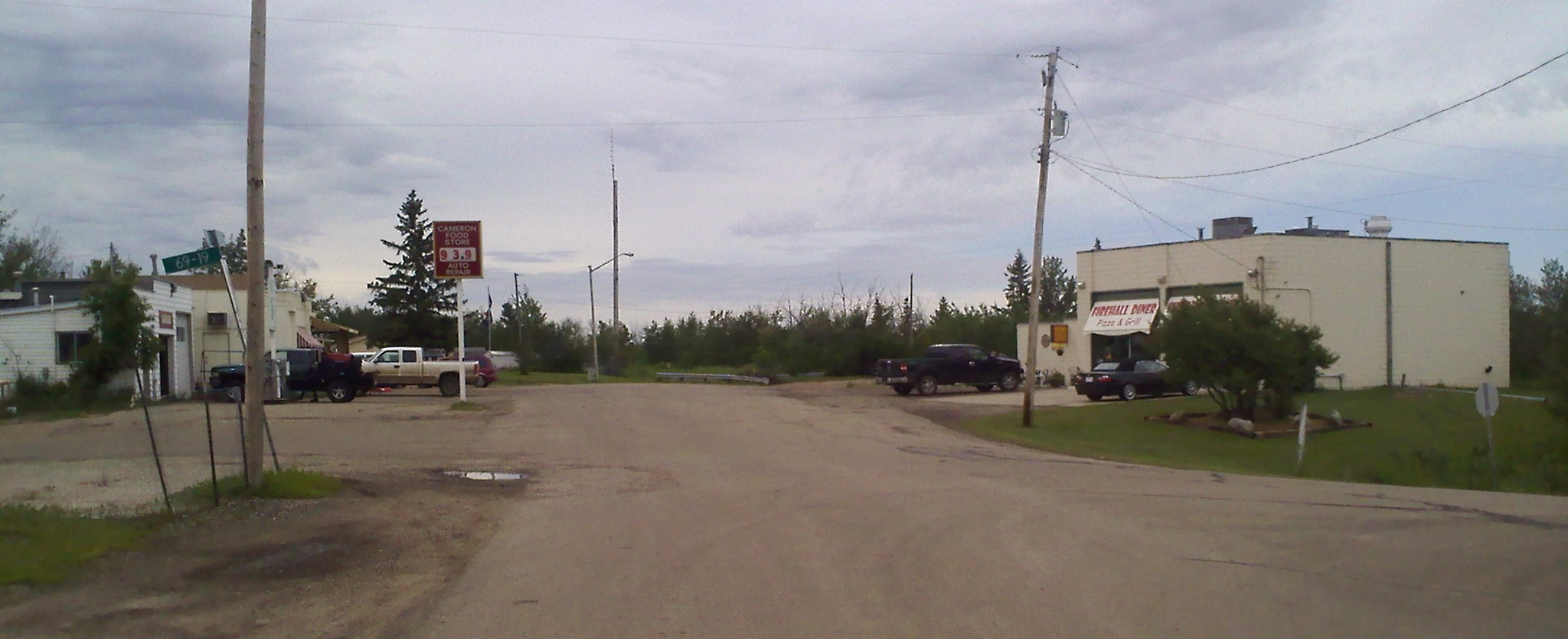 Business district of South Cooking Lake, Alberta.